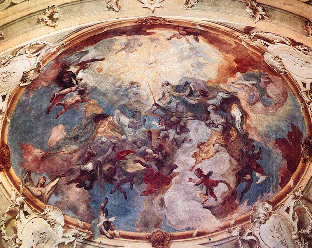 Christ and God the Father